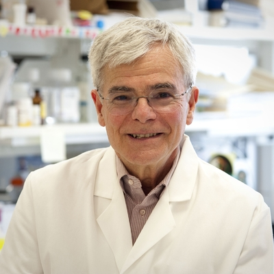 Deputy Director of Intramural Research, Gottesman obtained his M.D. from Harvard University Medical School, completed his internship and residency in medicine at the Peter Bent Brigham Hospital in Boston, and received his postdoctoral research training in molecular genetics with Martin Gellert at the NIH. After a year as an assistant professor in the Department of Anatomy at Harvard, he moved to the NIH in 1976. He currently serves as the NIH deputy director for intramural research as well as chief of the Laboratory of Cell Biology.